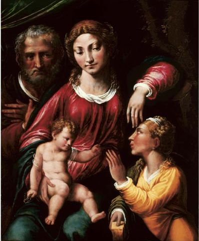 Mystic Marrriage of St. Catherinelabel QS:Les,"Matrimonio místico de Santa Catalina" label QS:Len,"Mystic Marrriage of St. Catherine"